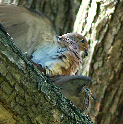 Mourning doves mating at herbarium in the Mall, Washinton DC, USA.